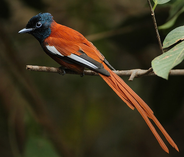 An attractive species of Gallery forest in West Africa. This image was taken in Abuko, The Gambia (where many of the T.rufiventer are part of a hybrid swarm with T. viridis -this bird had some black ventral streaking but in most respects resembled T.rufiventer).